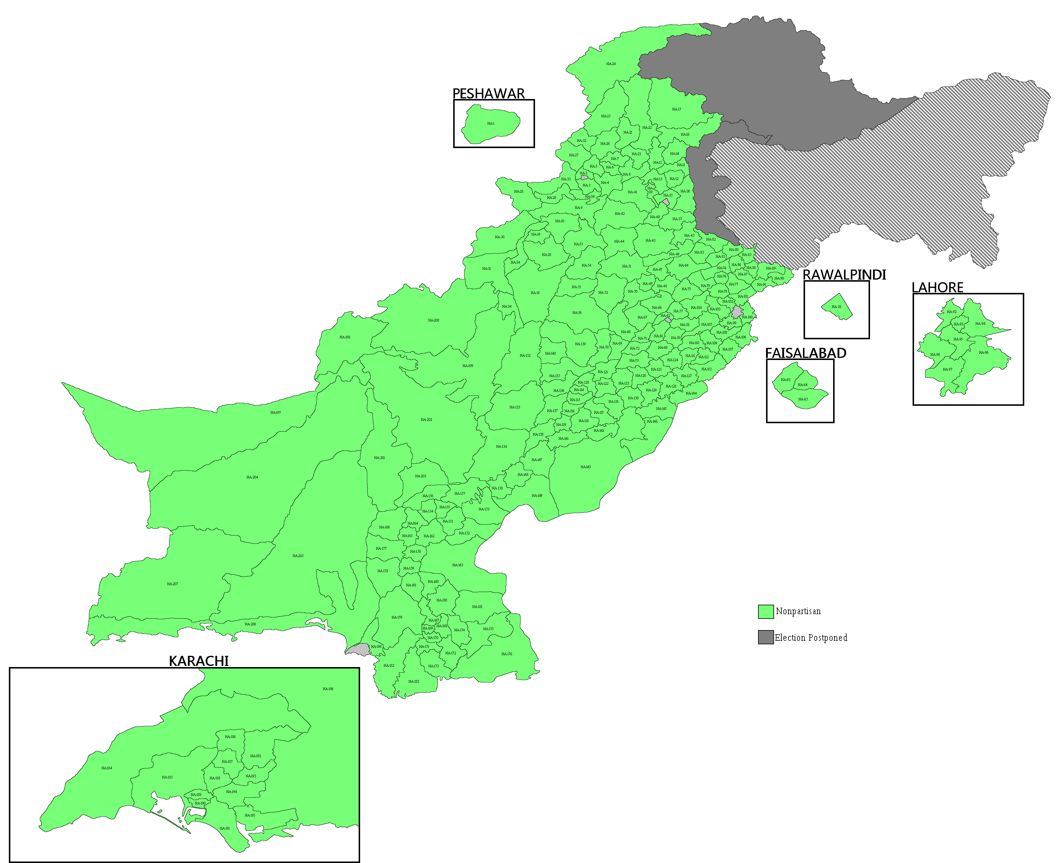 Map of Pakistan showing National Assembly Constituencies and winning parties